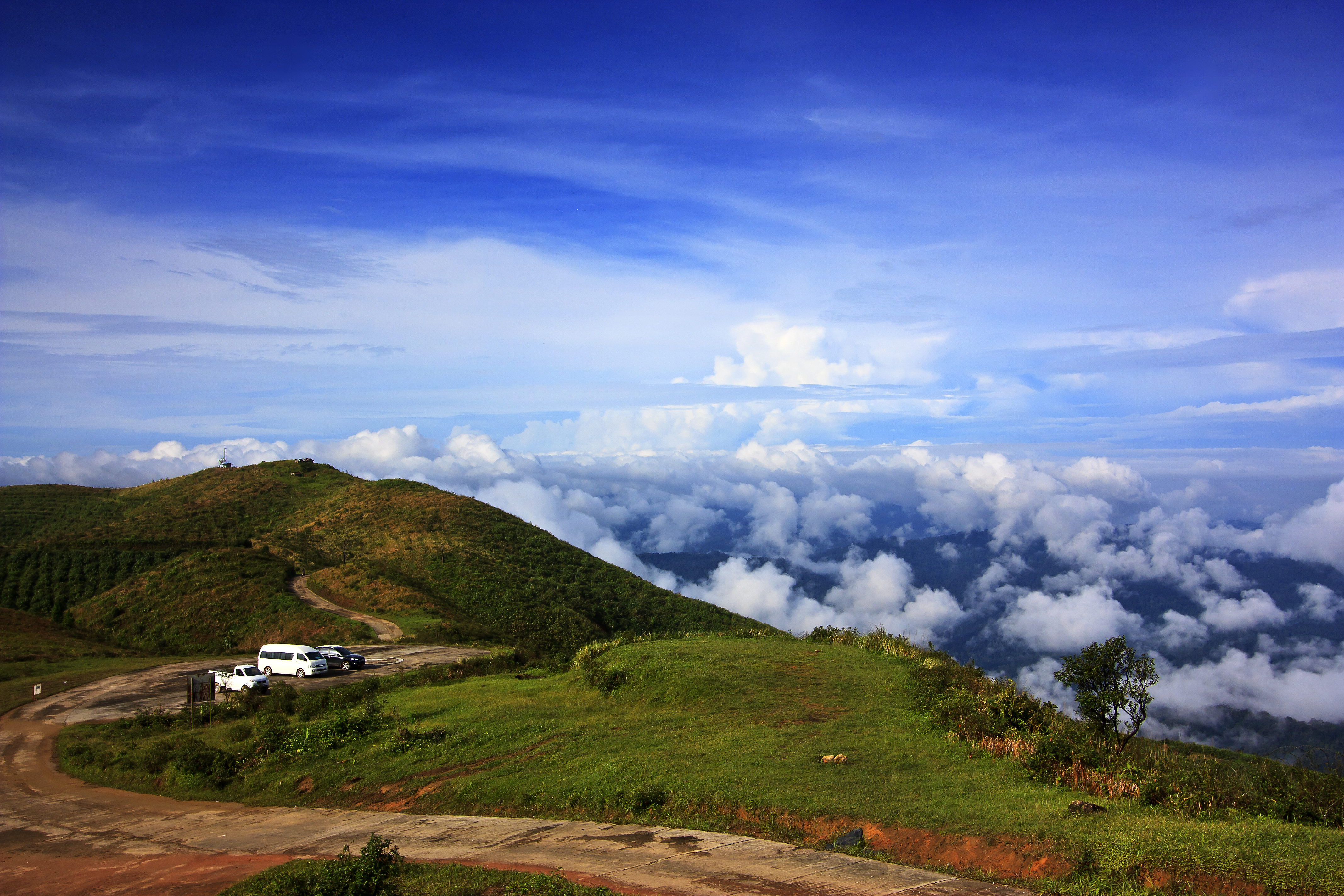 Noen Chang Suek, Thong Pha Phum National Park, Kanchanaburi Province